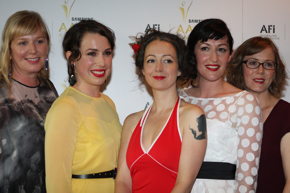 Crew of Laid (TV series) at 1st AACTA Awards 2012. Left to right: Liz Watts, Alison Bell, Marieke Hardy, Celia Pacquola and Kirsty Fisher The 1st AACTA Awards were presented at the Sydney Opera House on 31 January 2012. The ceremony was preceded by a luncheon at the Westin Hotel in Sydney on 15 January 2012.